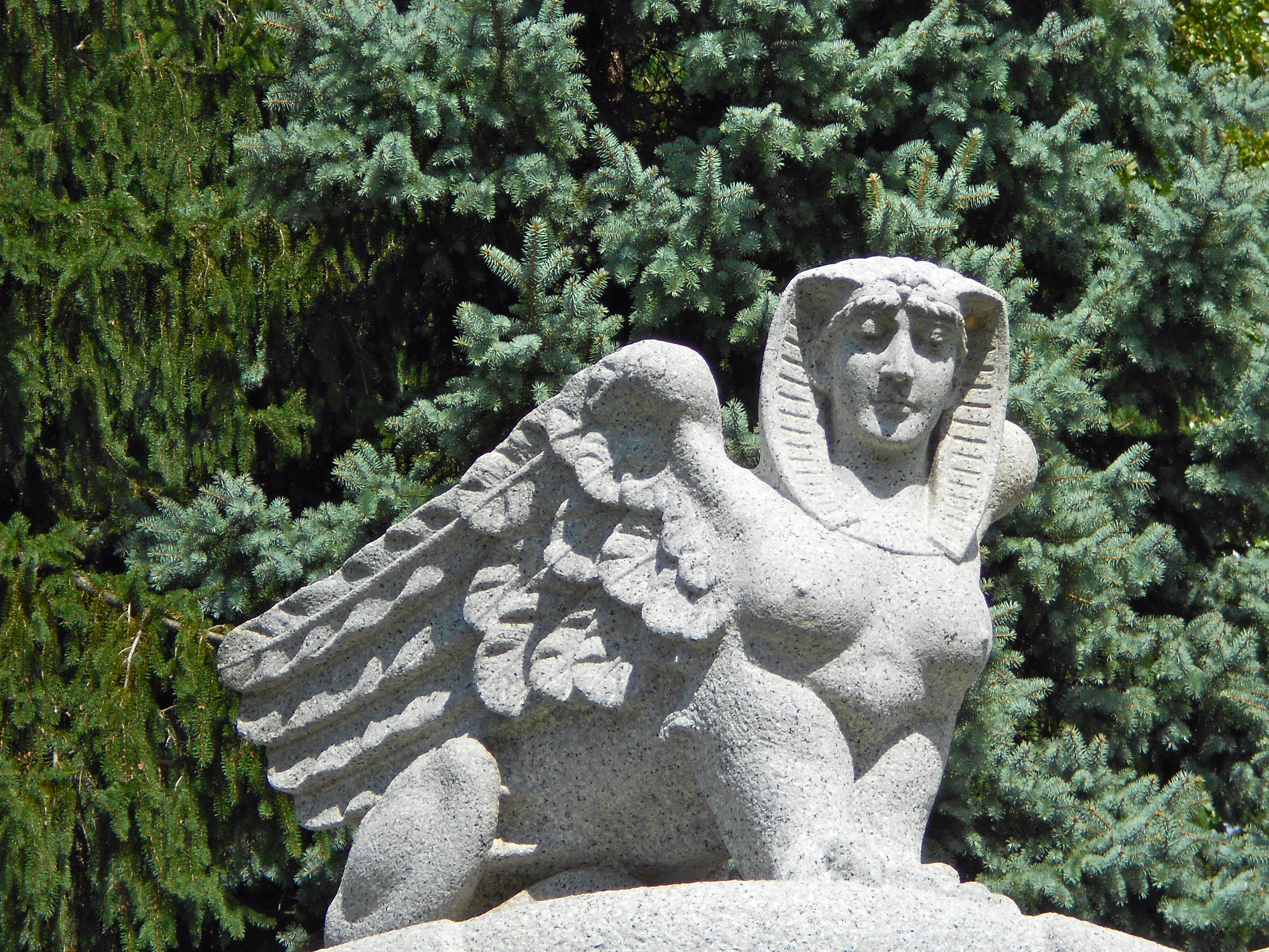 West Laurel Hill Cemetery Art object in West Laurel Hill Cemetery in Montgomery County, Pennsylvania on the NRHP